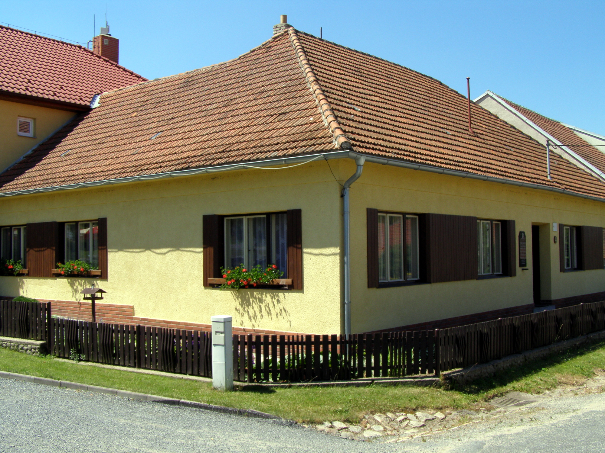 Střížov village, part of Vladislav. Major Jaroslav Krátký native house